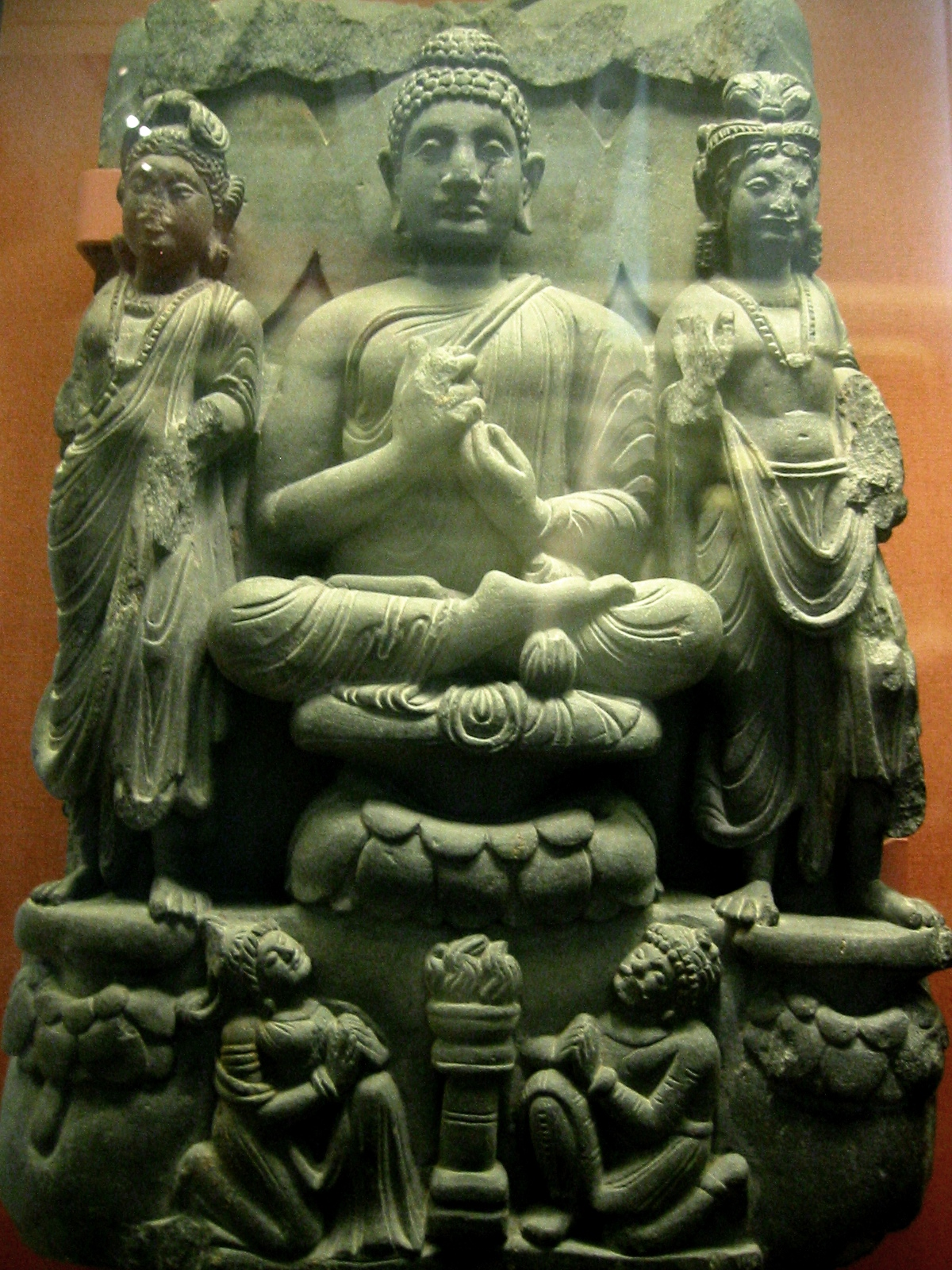 Buddha triad and Kushan couple. British Museum. Personal photograph 2006.